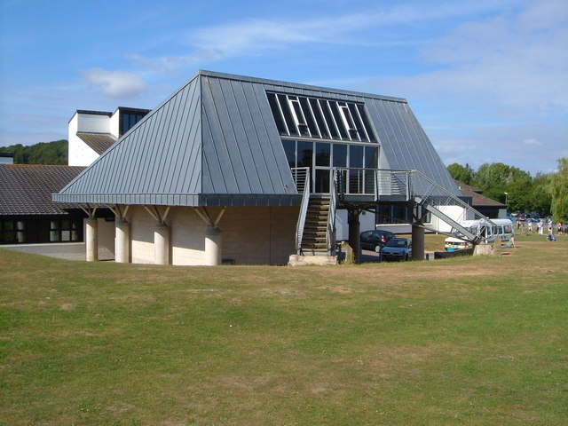 Ariel Centre, Kevics, Totnes. Purpose-built performing and visual arts centre at King Edward VI Community College (popularly known as Kevics) on the northern side of Totnes. Other school buildings behind.